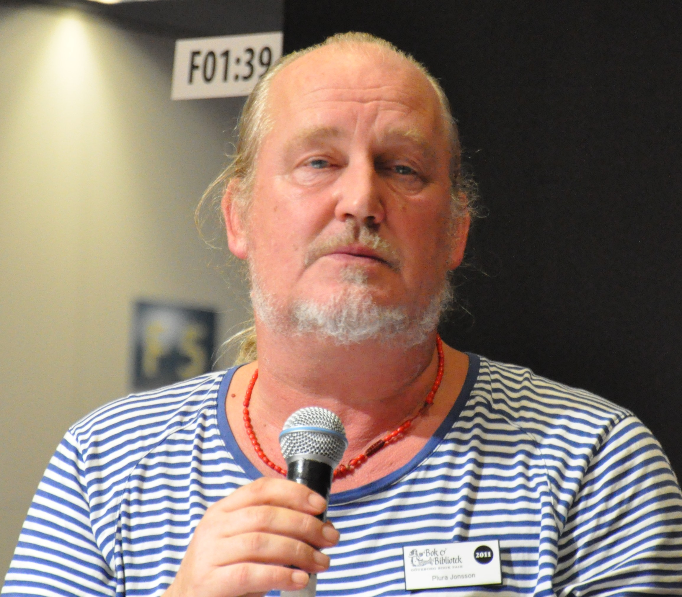 Plura Jonsson på Bokmässan i Göteborg 2011